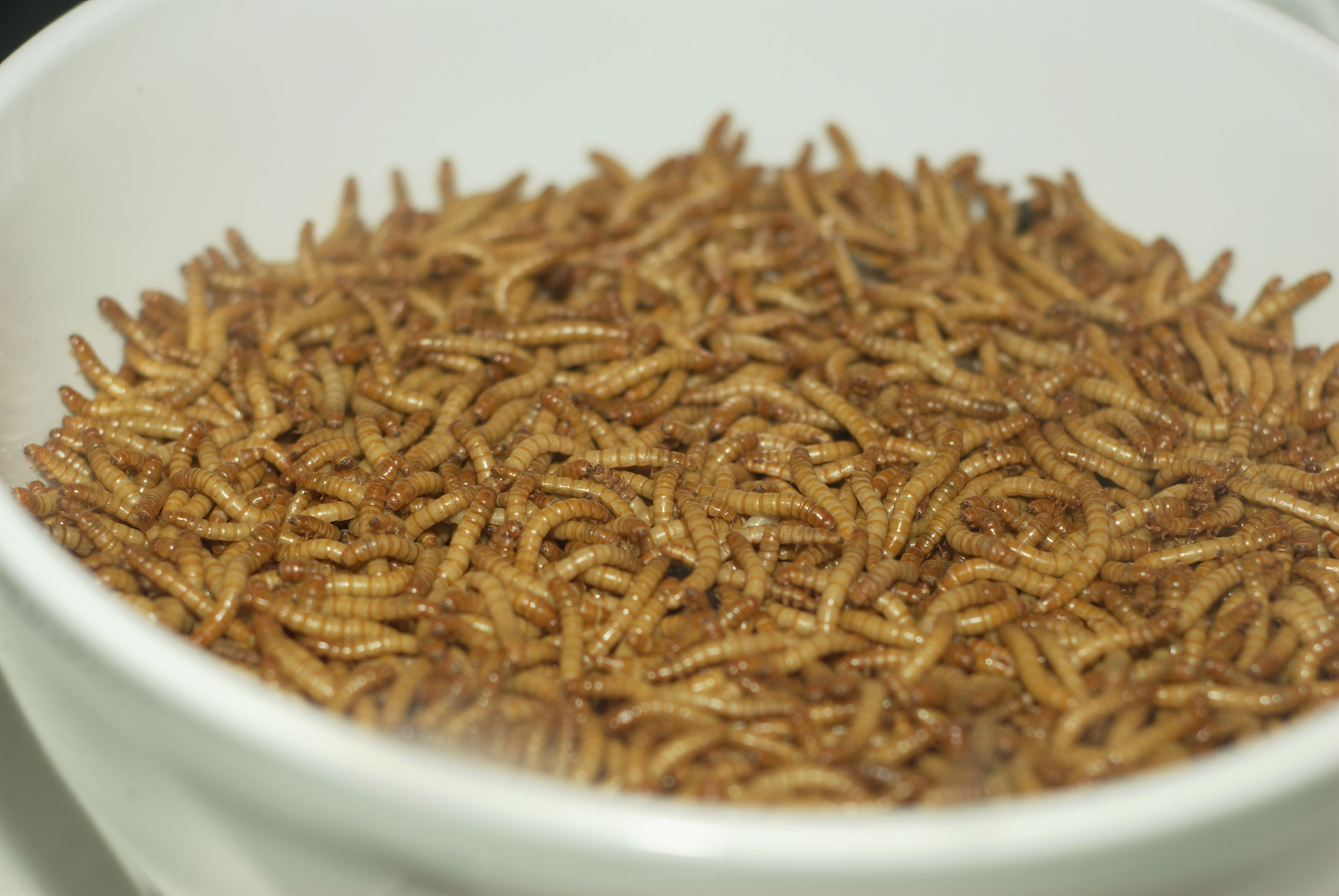 Mealworms. Displayed as if for human consumption in an exhibit at an aquarium.